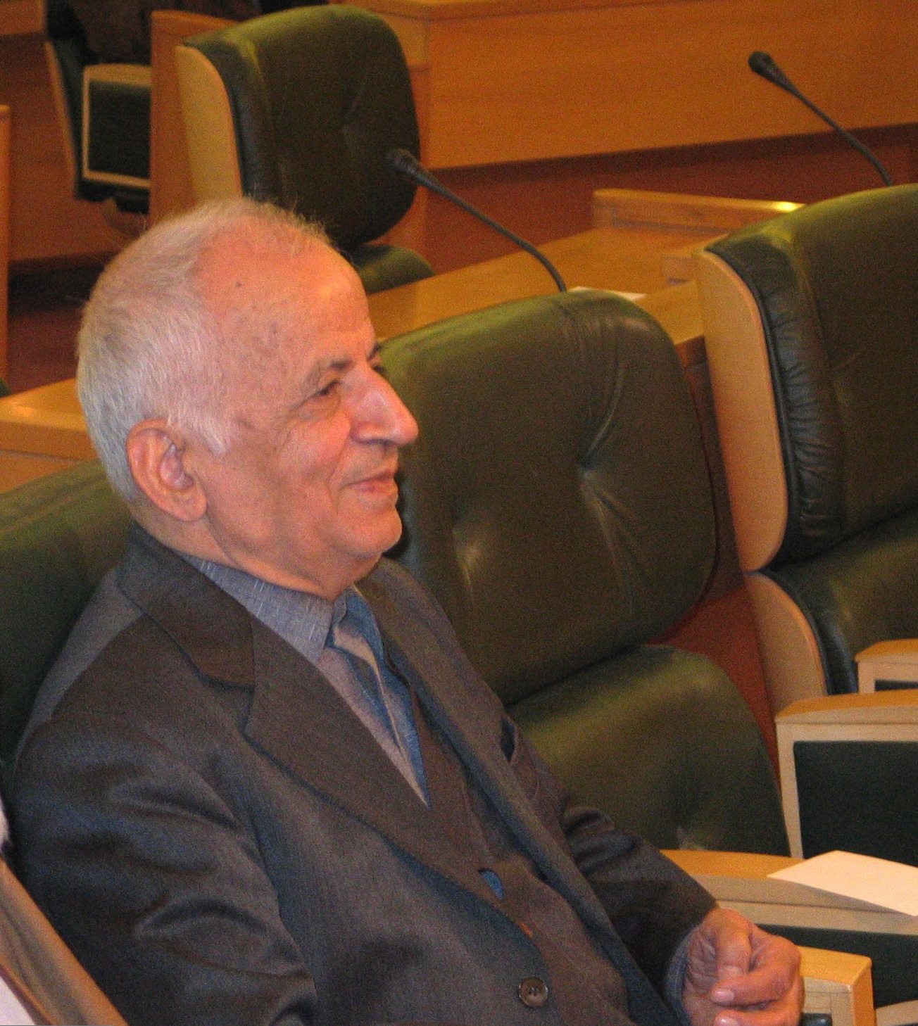 Mehdi Mohaghegh (born 1930, Mashad,Iran) is an Iranian scholar specializing in Persian literature, Islamic studies and philosophy.